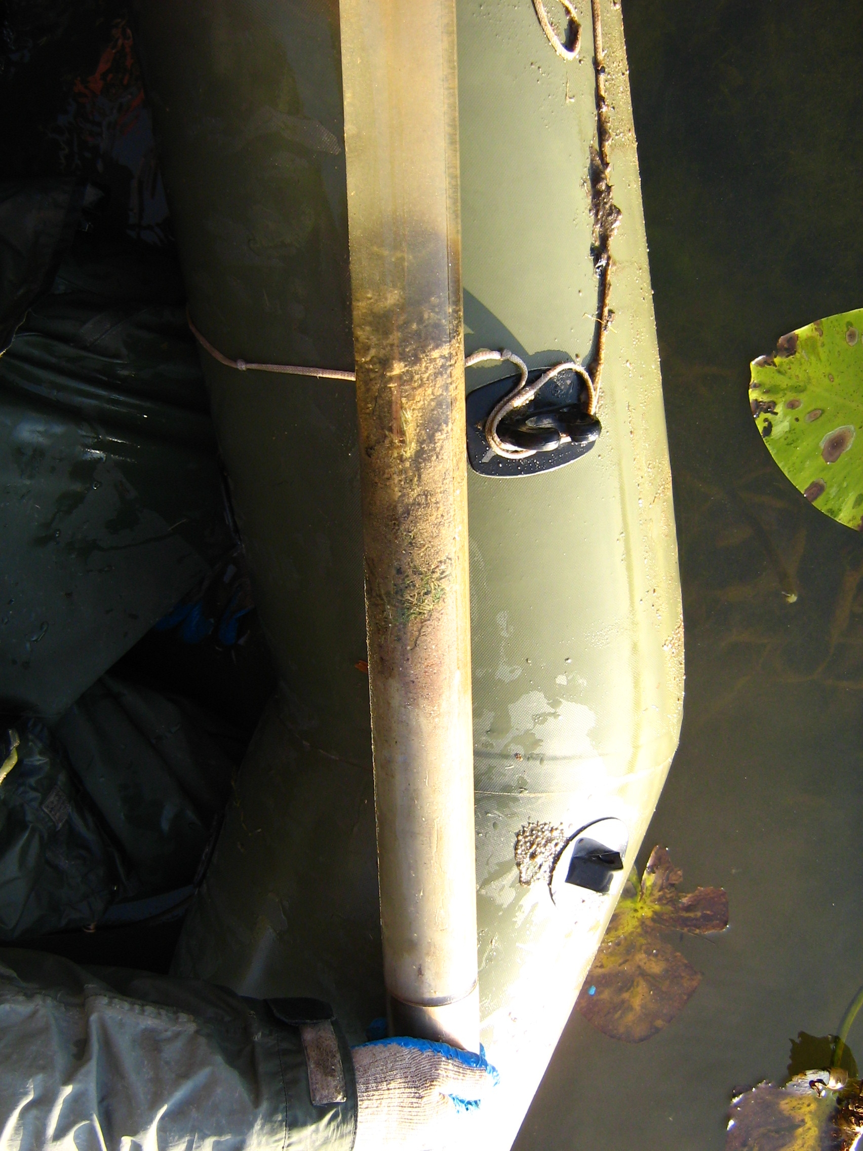 Lake sediment core in a Kajak probe. Lake Zawadzkie, Poland. Water - pelogen - peat/organic gyttja - calcareous gyttja